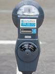 A parking meter label use by the city of San Francisco for payment and phone reminders of time remaining developed by Cellotape/Tap4Mor create PayByPhone NFC Label.